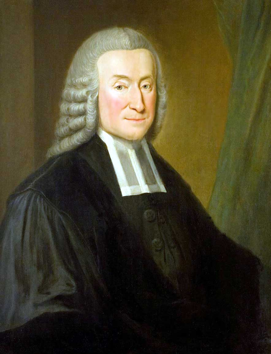 Ewald Hollebeek (1719-1796) Dutch Reformed theologian